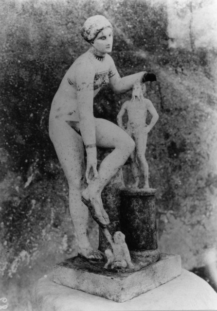 Gilded statue of Roman Goddess Venus found in Pompeii, currently in the Museo Archeologico in Naples.